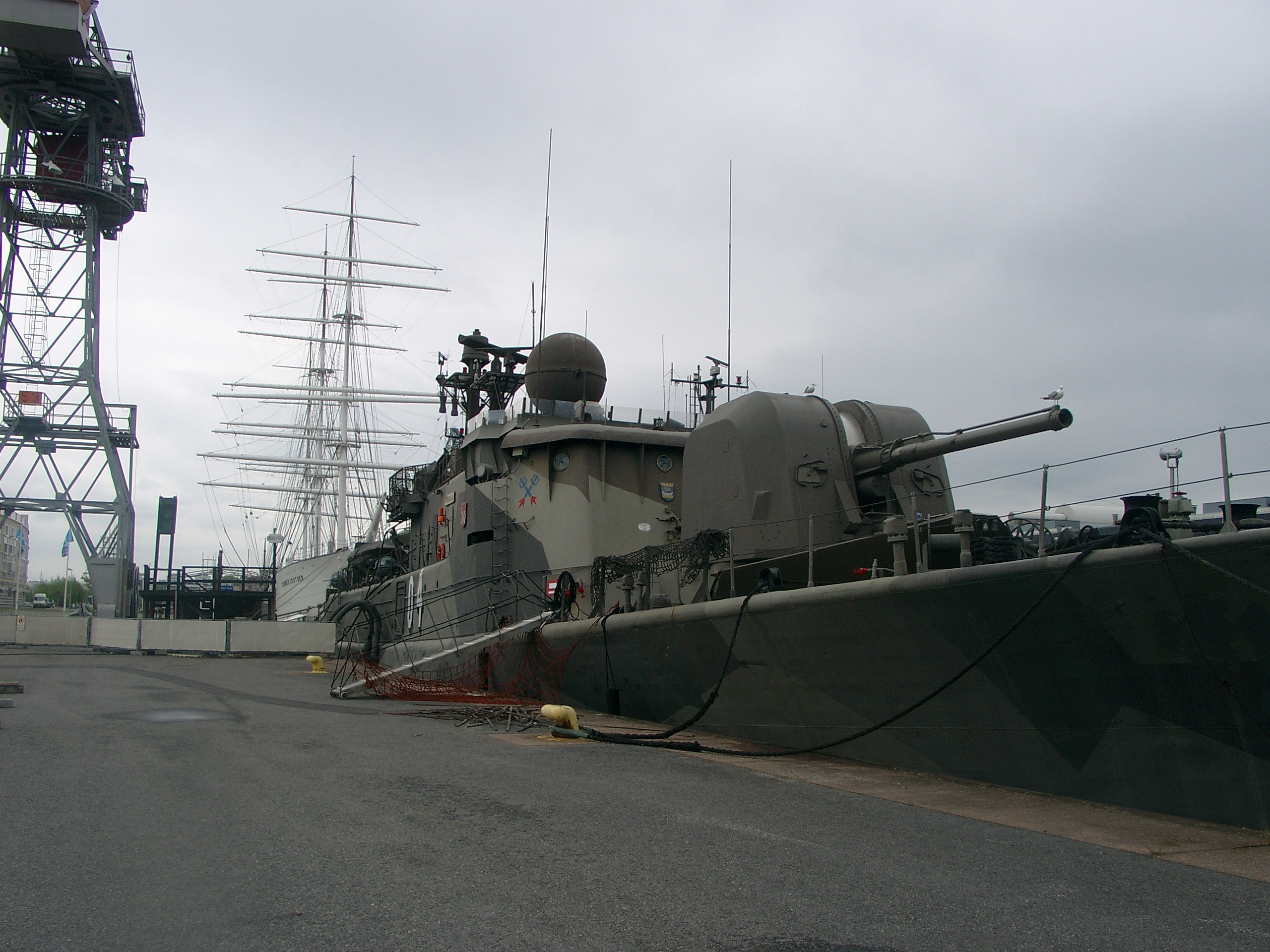 Finnish navy Corvette Karjala. Today museum ship in Turku